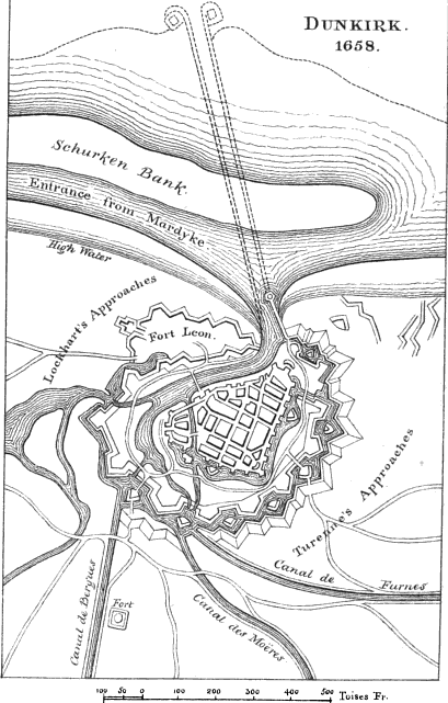 19th century unattributed and unsigned engraving of the siege of Dunkirk in 1658.